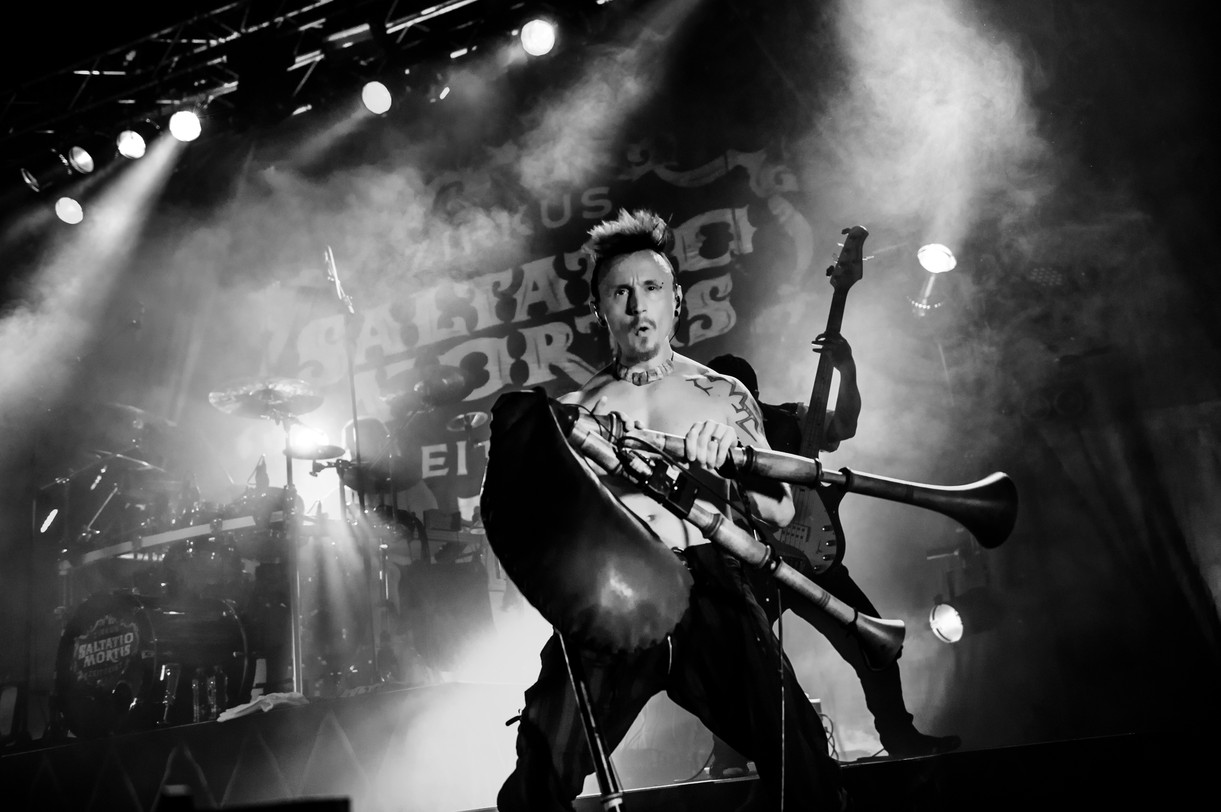 Saltatio Mortis - Zirkus Zeitgeist; Turbinenhalle Oberhausen